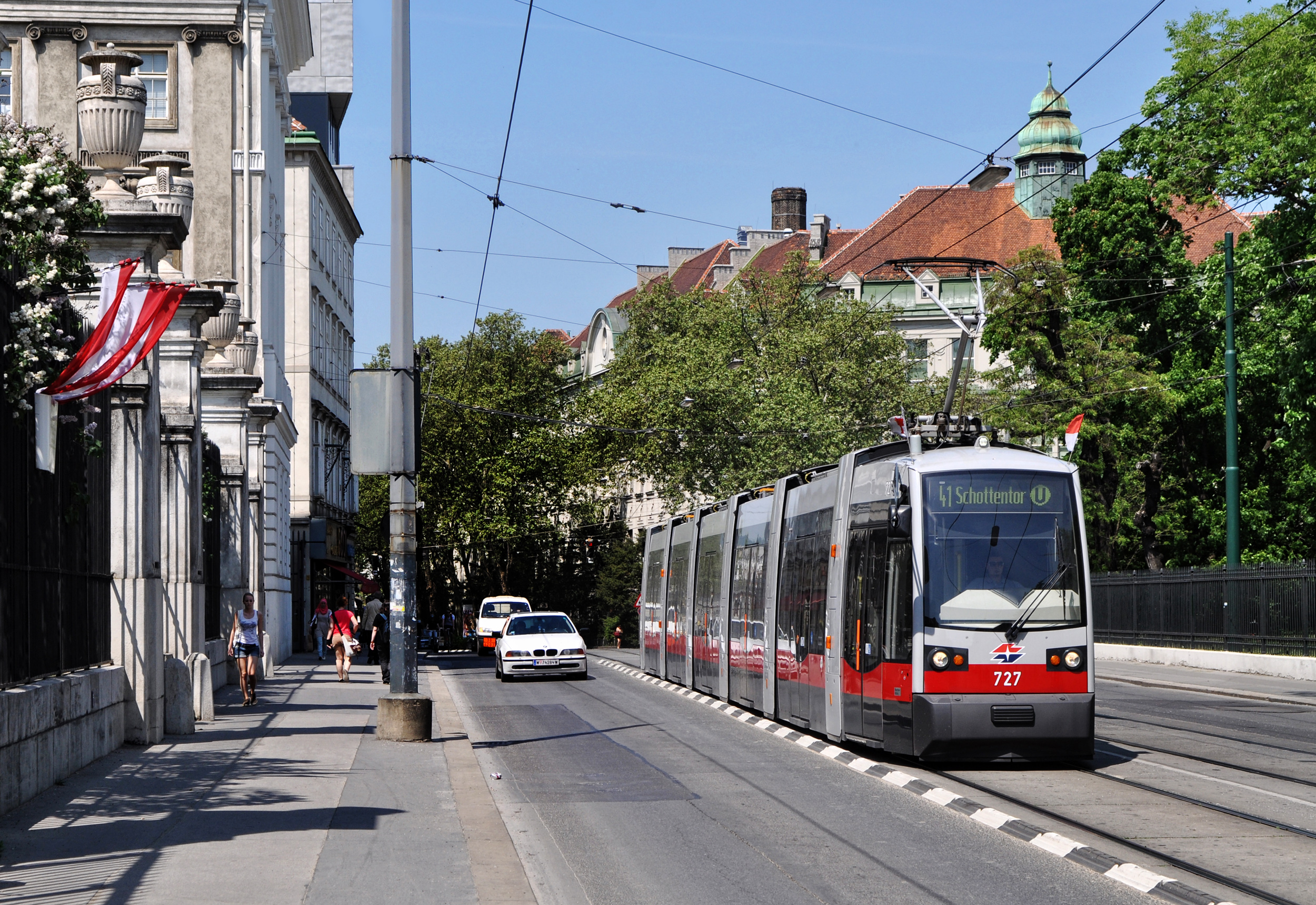 Tram ULF B1 727 (Line 41) in the Währinger Straße)